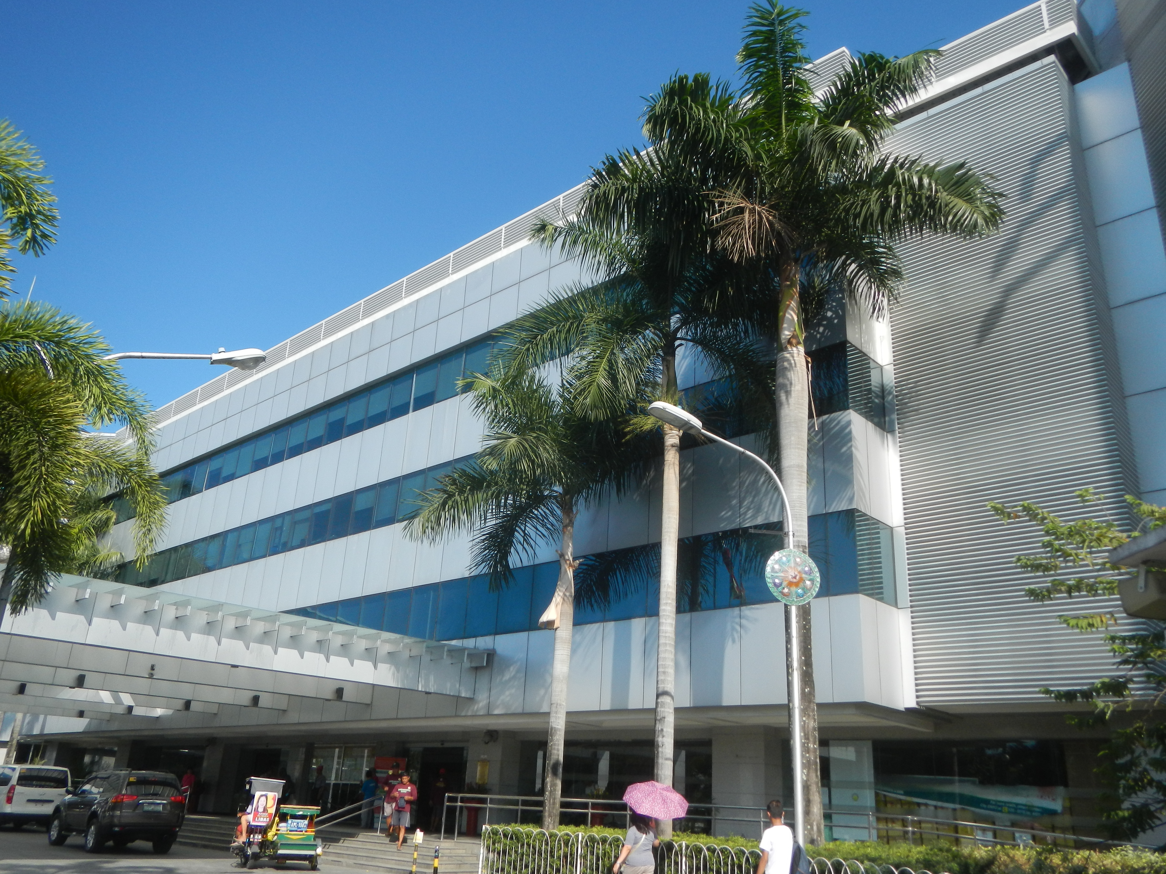 Santa Rosa, Laguna City Hall Gusaling Batasan - Santa Rosa, Laguna Maybank (Philippines) City of Santa Rosa Luguna Central Plaza - Jose Rizal and Philippine Revolution Monuments Bahay Pamahalaang Bayan - Gusaling Museo, Santa Rosa, Laguna; Exterior of the Santa Rosa de Lima Parish Church of Santa Rosa, Laguna Roman Catholic Diocese of San Pablo Episcopal District II Vicariate of Saint Polycarp) [1] [2] Coordinates: 14°18'50"N 121°6'40"E Barangays Kanluran (Poblacion Uno) 14°18'45"N 121°6'34"E Malusak (Poblacion Dos) 14°18'44"N 121°6'49"E Tagapo 14°19'5"N 121°6'4"E Market Area (Poblacion Tres) 14°19'1"N 121°6'54"E Santa Rosa, Laguna (Note: Judge Florentino Floro, the owner, to repeat, Donor Florentino Floro of all these photos hereby donate gratuitously, freely and unconditionally Judge Floro all these photos to and for Wikimedia Commons, exclusively, for public use of the public domain, and again without any condition whatsoever).